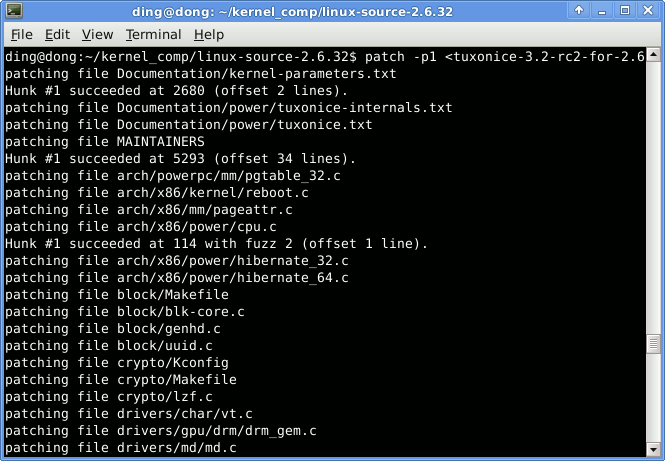 A screenshot of patching the Linux kernel with TuxOnIce.